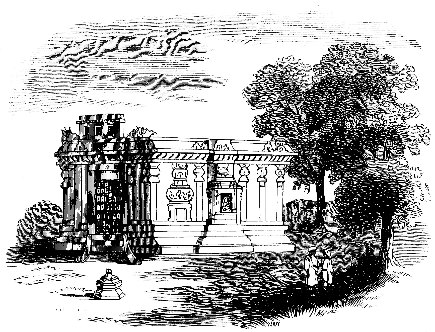 Small temple to Ganesha at Chintadrepettah